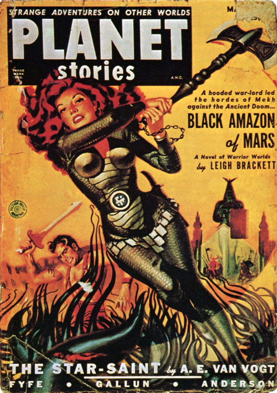 Cover of March 1951 issue of Planet Stories. Artist is Allen Anderson. Copyright was either Anderson, or more likely Fiction House, who published the magazine.